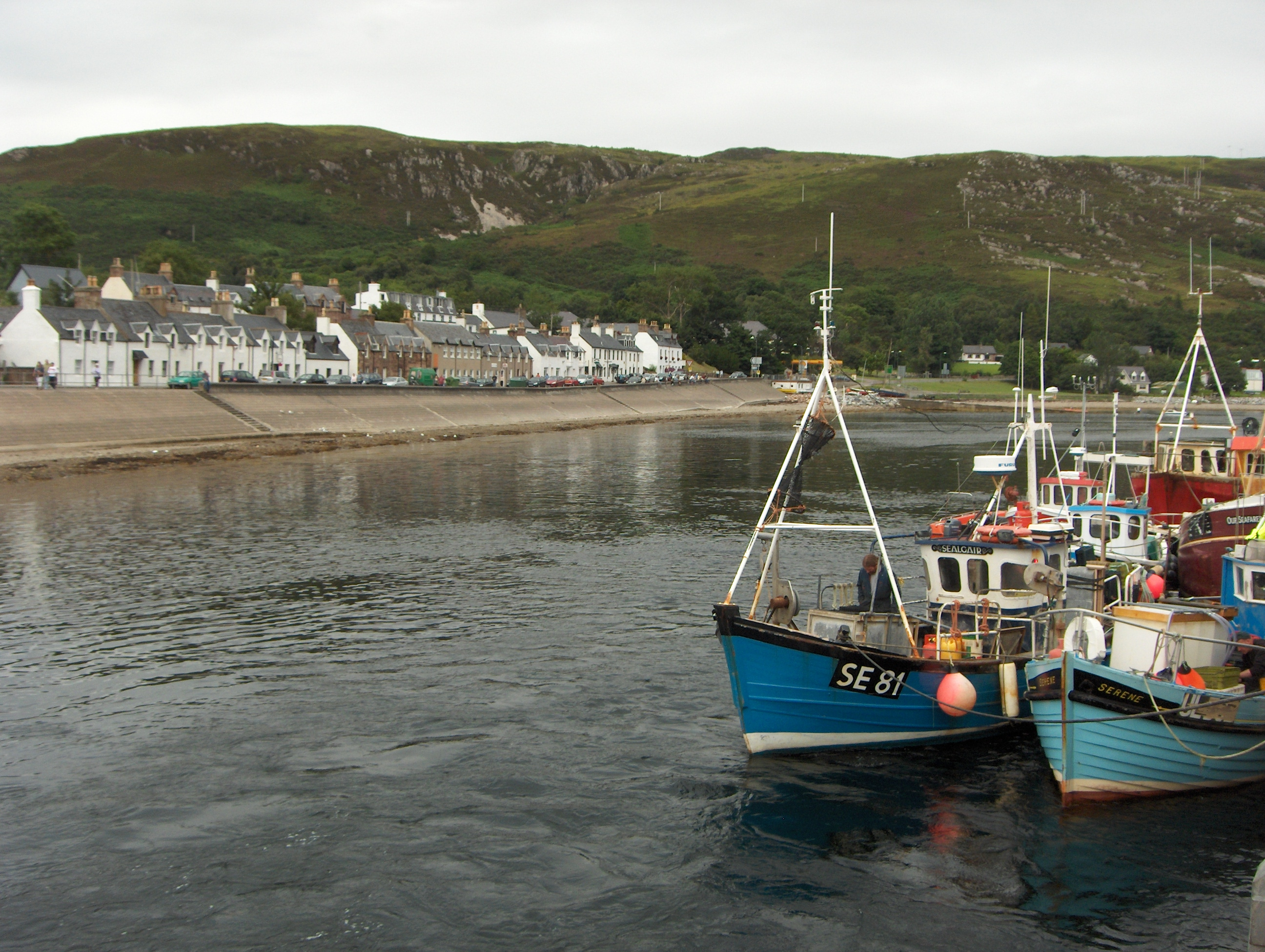 Fishing boats in Ullapool (Scotland).